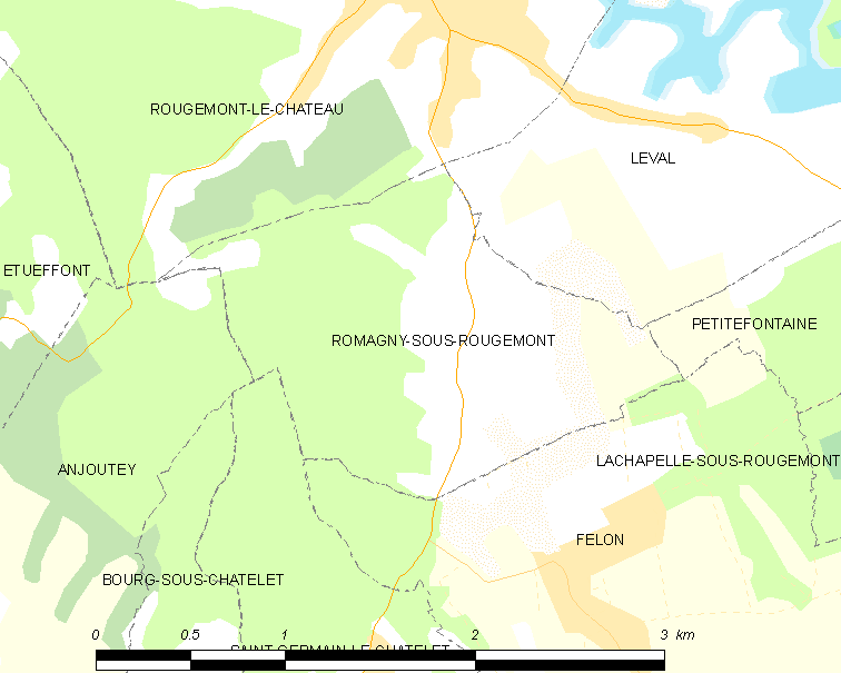 Map of French municipality Romagny-sous-Rougemont